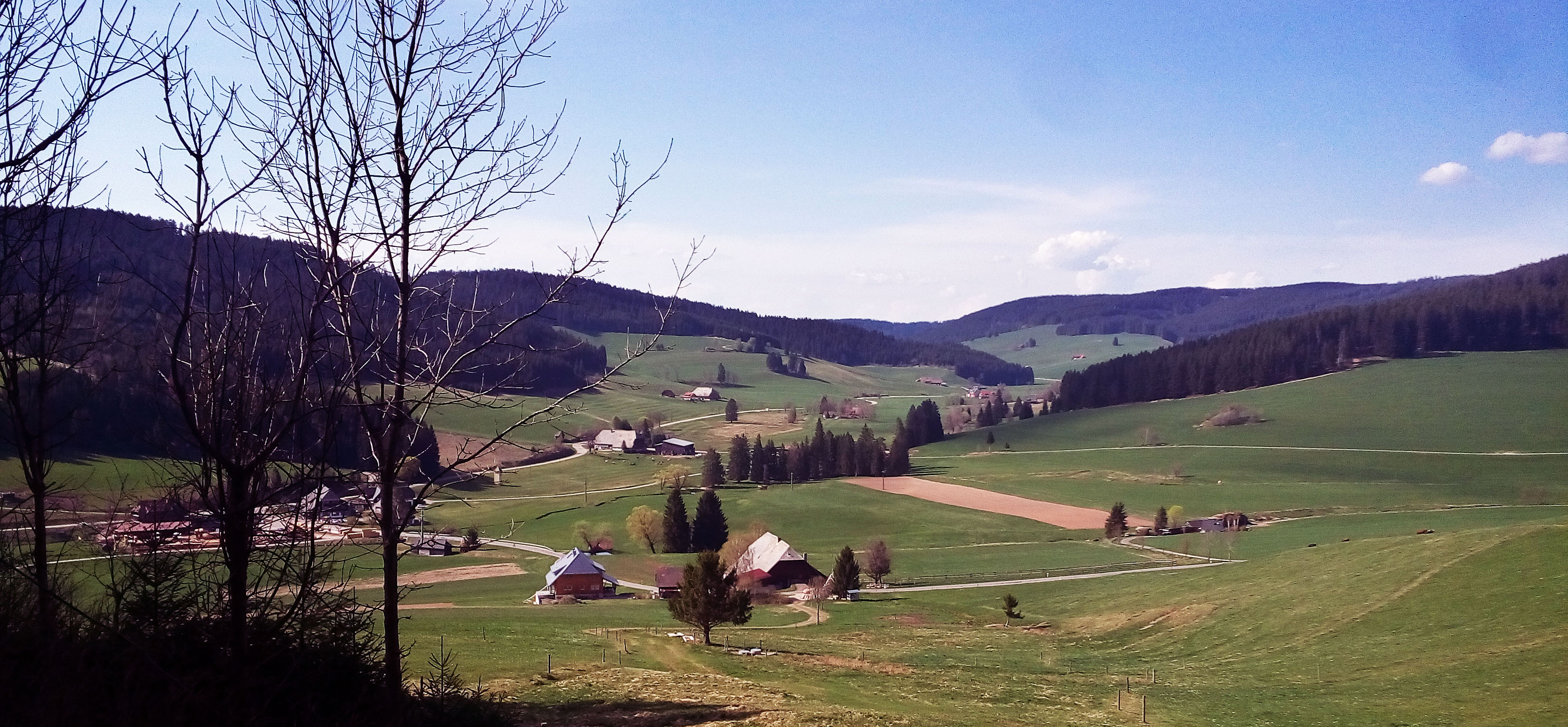 Langenordnach Valley in Titisee-Neustadt, Black Forest, Germany